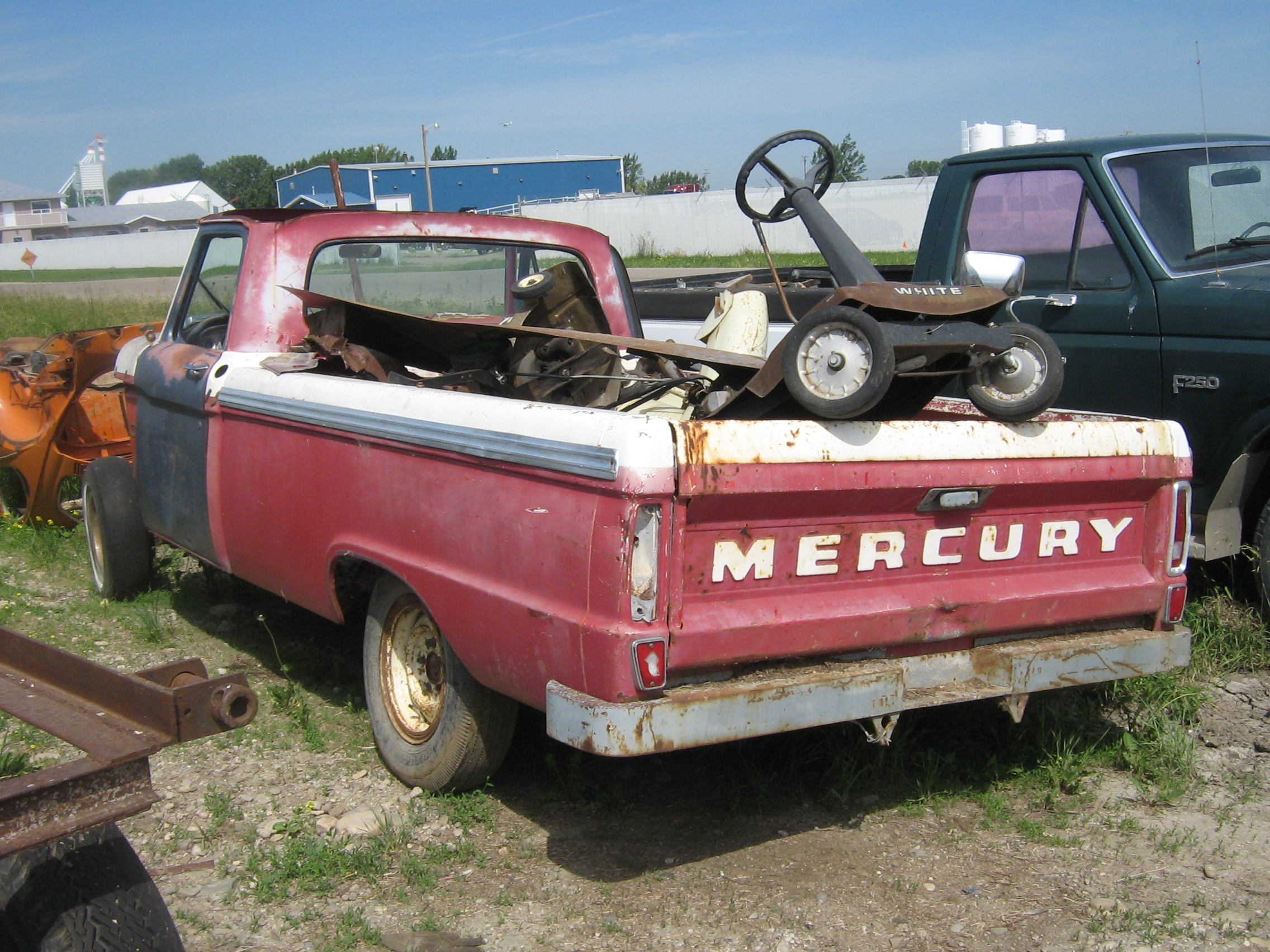 Canada only Mercury Truck